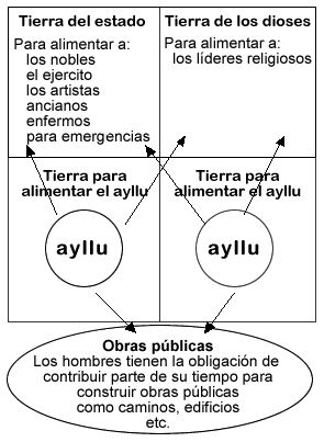 Diagram of the responsabilities of each ayllu in the time of the Incas.